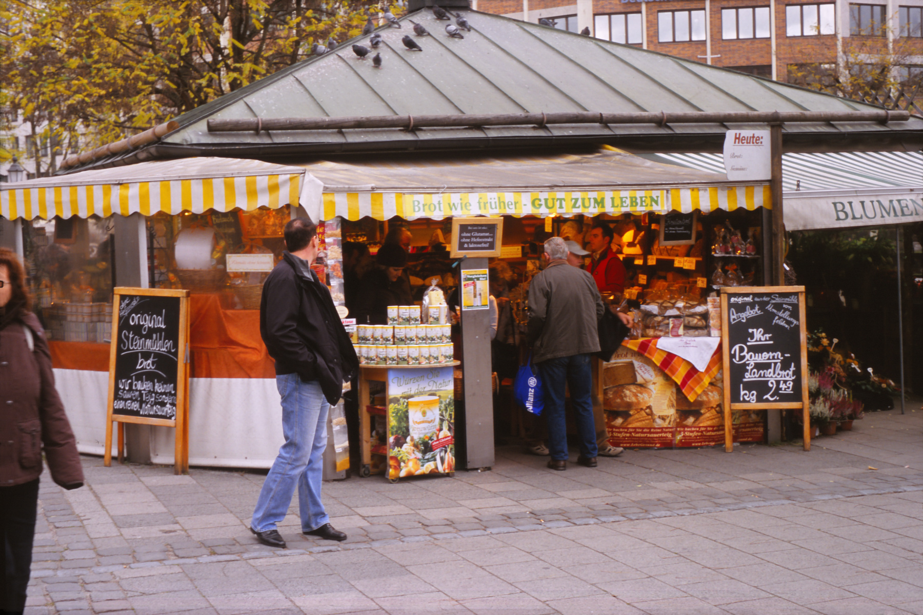 Second sales stand of "Gut zum Leben" at the Viktualienmarkt in Munich